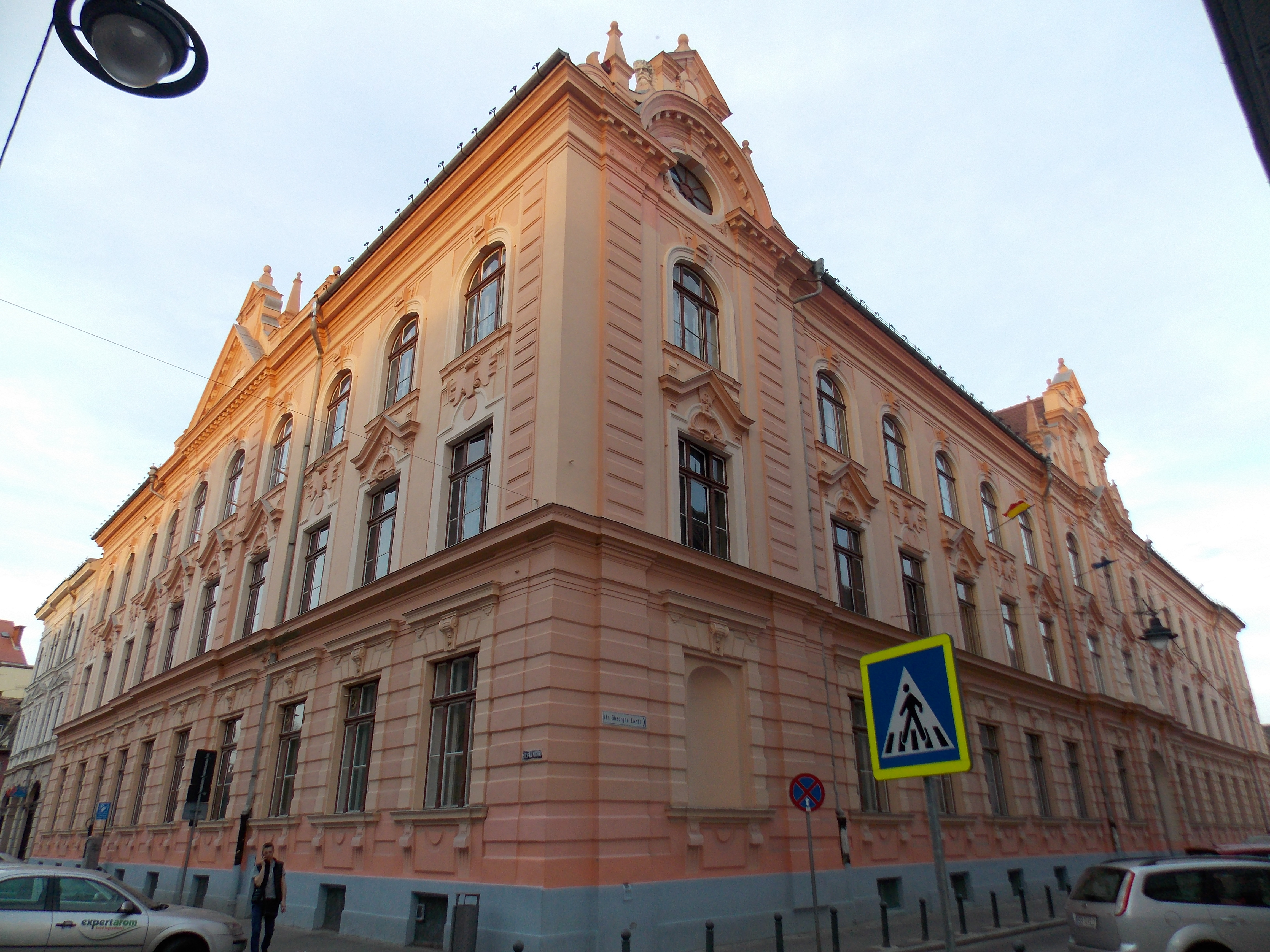 Gheorghe Lazar National College, erected in 1897-98